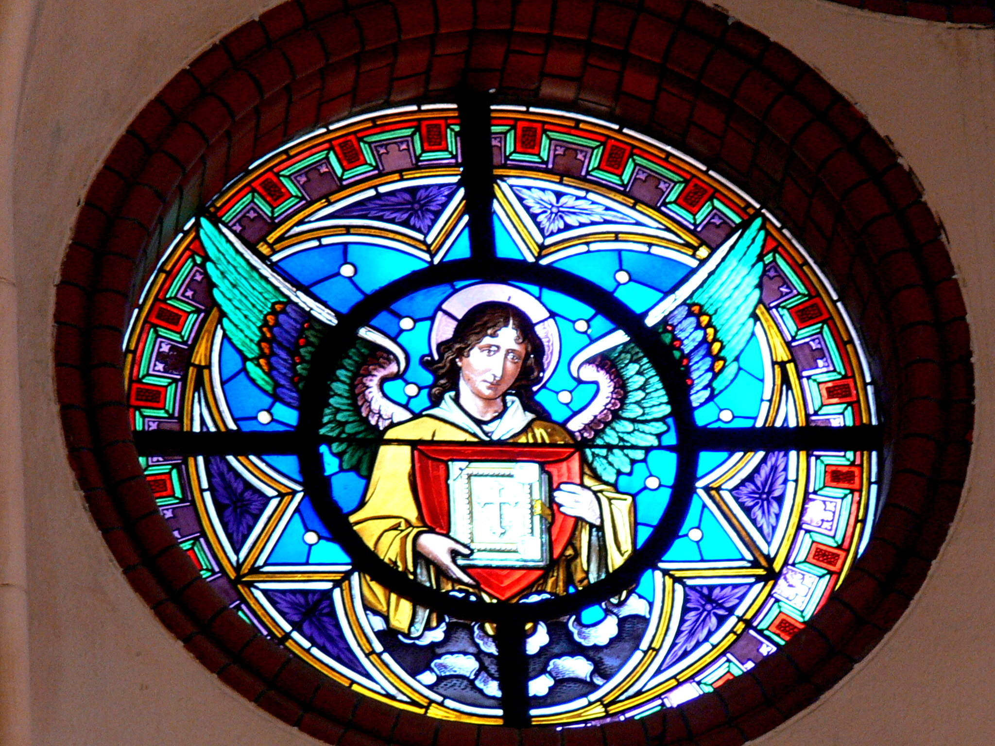 Aigen parish church. Gothic revival stained glass window showing an angel holding the Holy Bible.